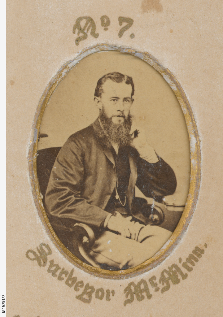 Portrait of G.R. McMinn, a surveyor on the Northern Territory Surveying Expedition - B-16791-7